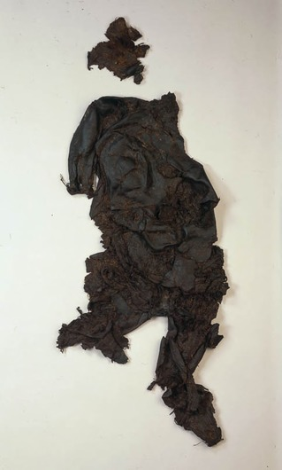 Remains of the bog body Zweeloo Woman. The bog body was discovered turfing a bog near the Gelpenberg in Zweeloo, Province Drenthe, Netherlands in1951.